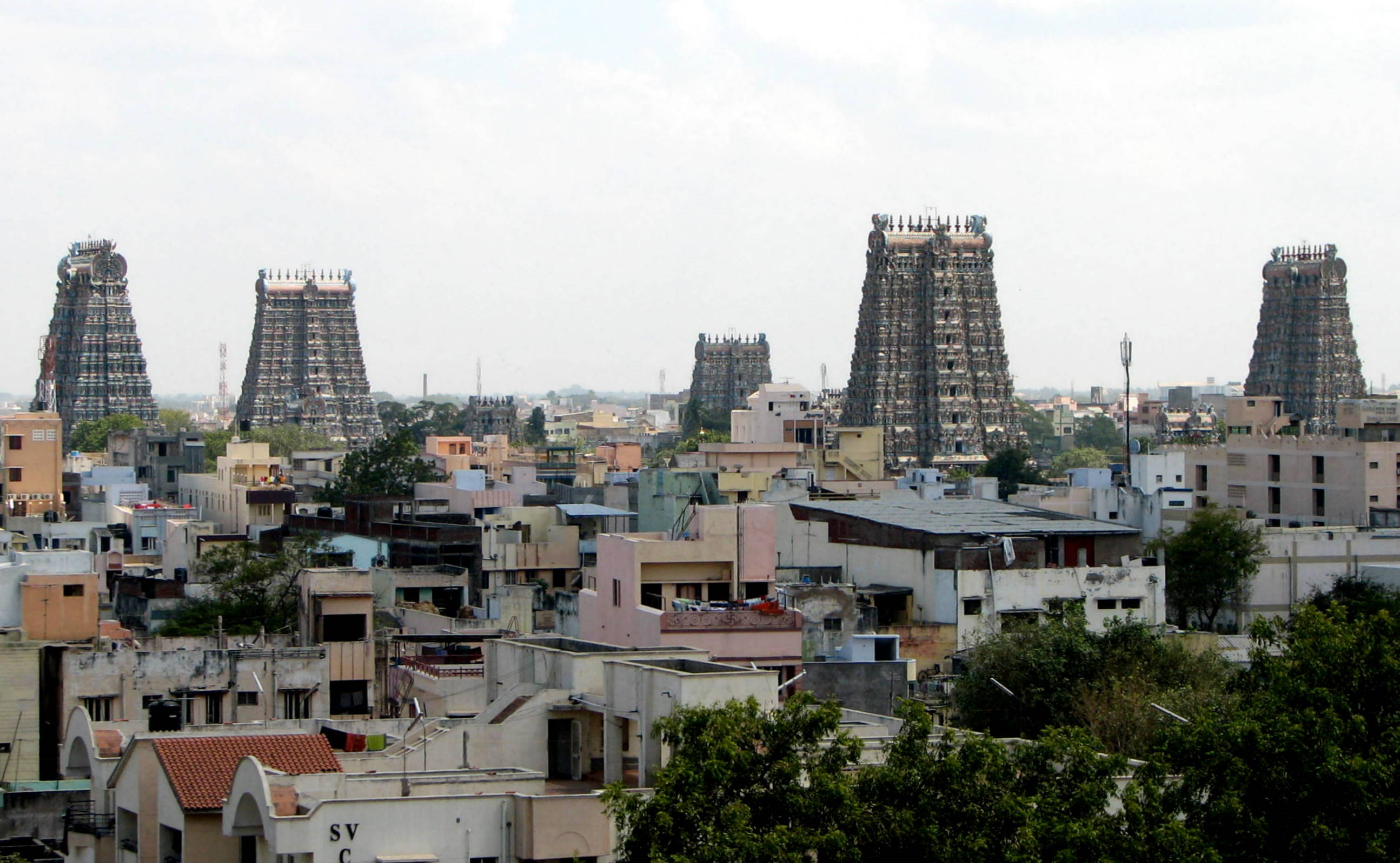 Madurai and view of the gopurams of Meenakshi temple, State of Tamil Nadu, India